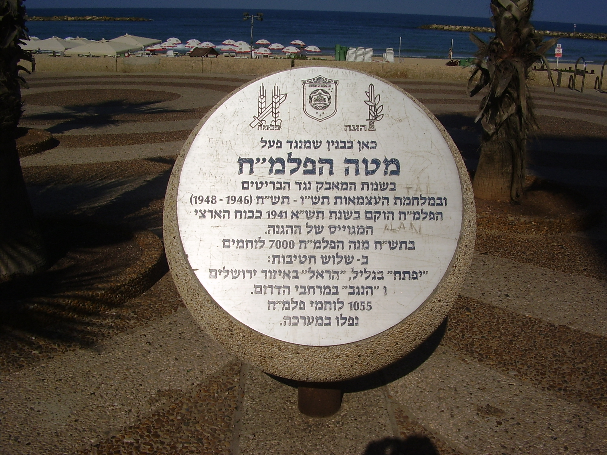 palmach memorial in tel aviv beach אנדרטת זיכרון למטה הפלמ"ח בחוף תל אביב